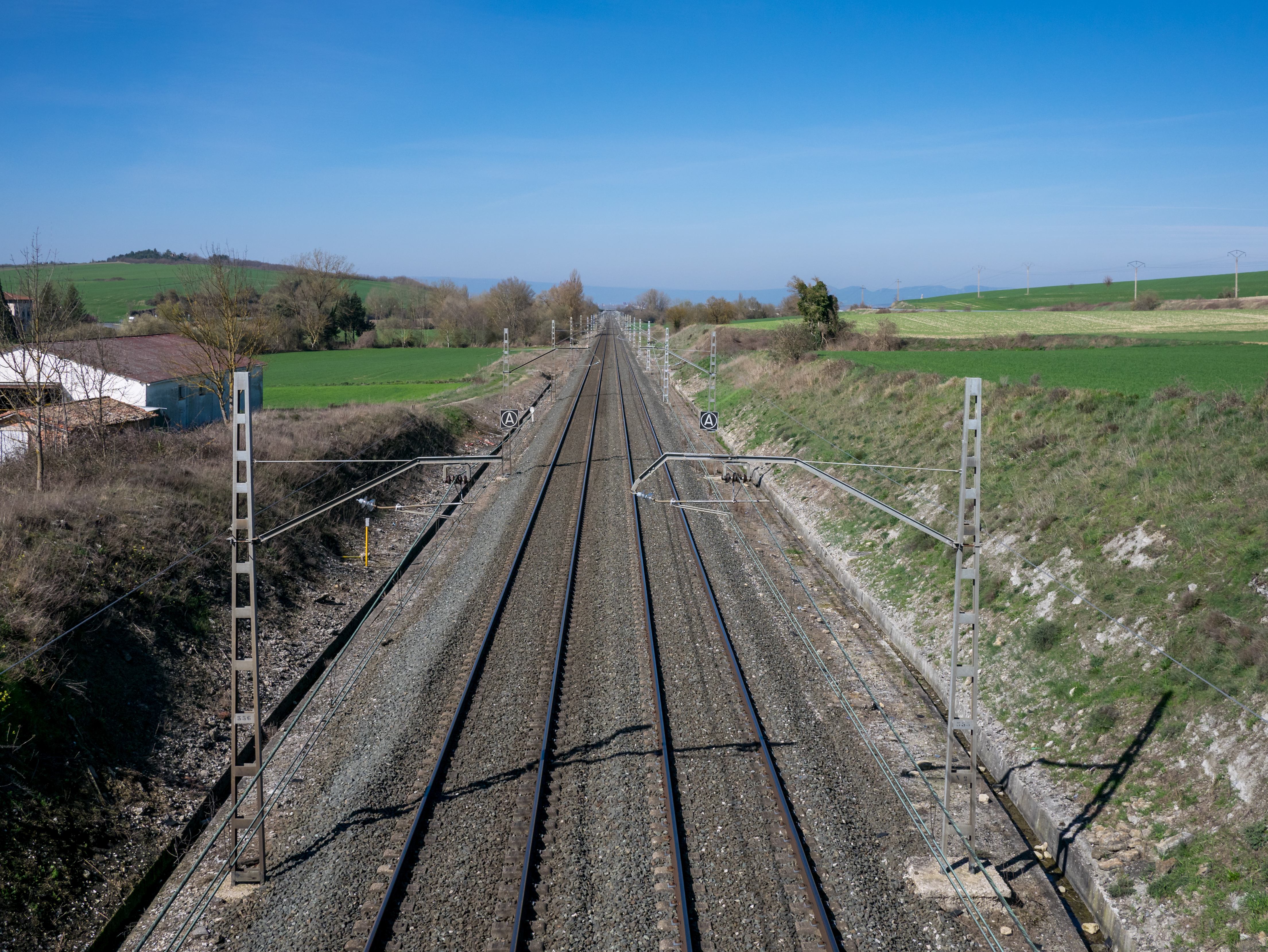 Rails of of the railway line Madrid-Hendaya near Elburgo. Álava, Basque Country, Spain